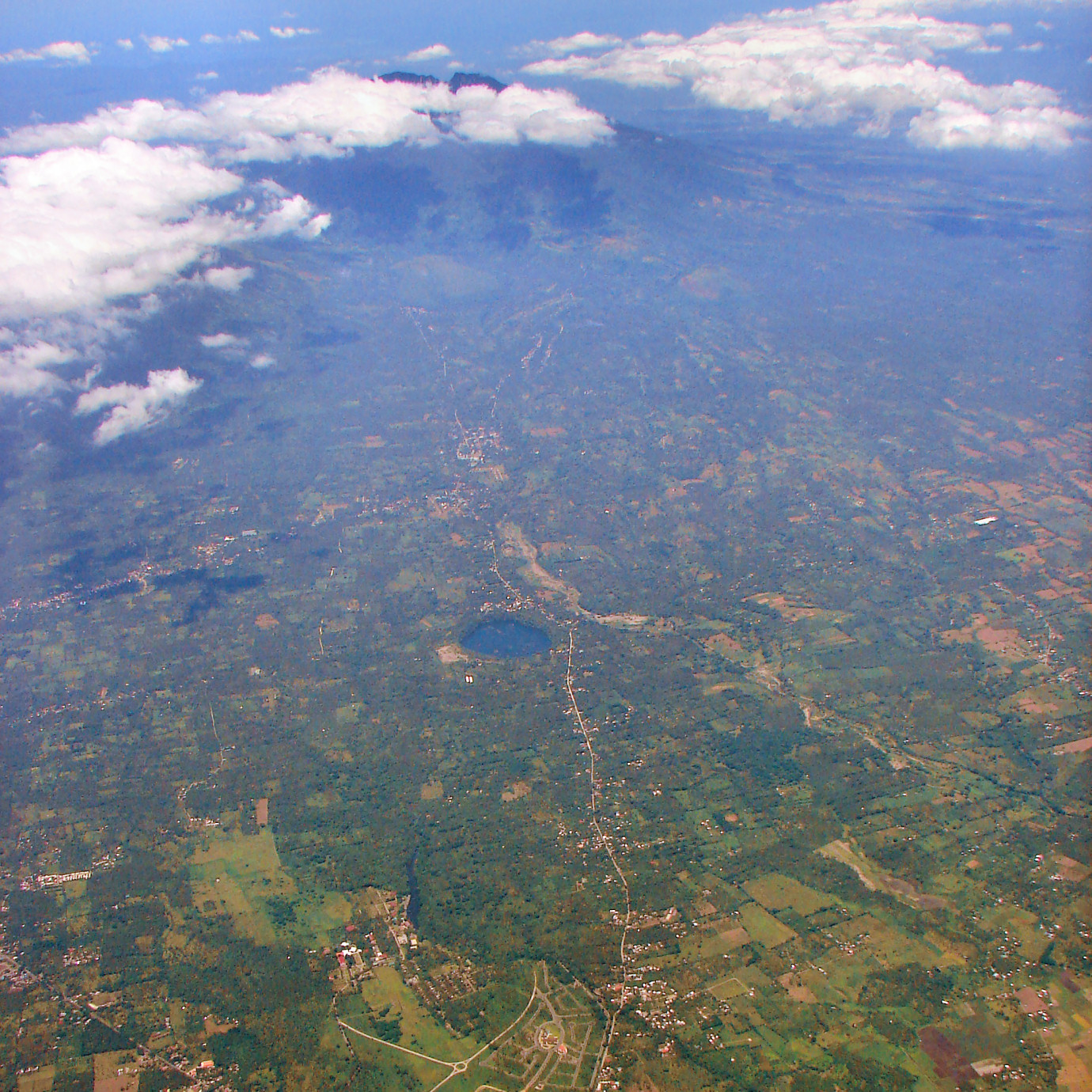 Dolores, Quezon, Philippines, with Mount Banahaw in background